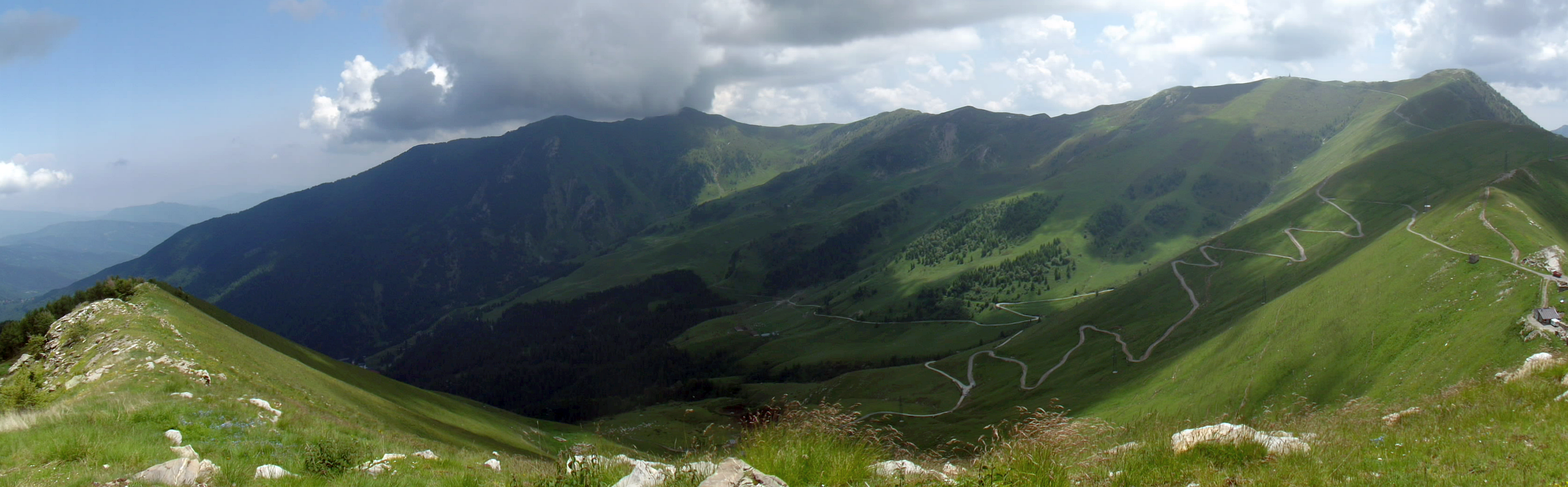 Cime Ventose (Ligurian Alps): panorama looking South with mounts Tanarello, Saccarello, Frontè and Cima Garlenda